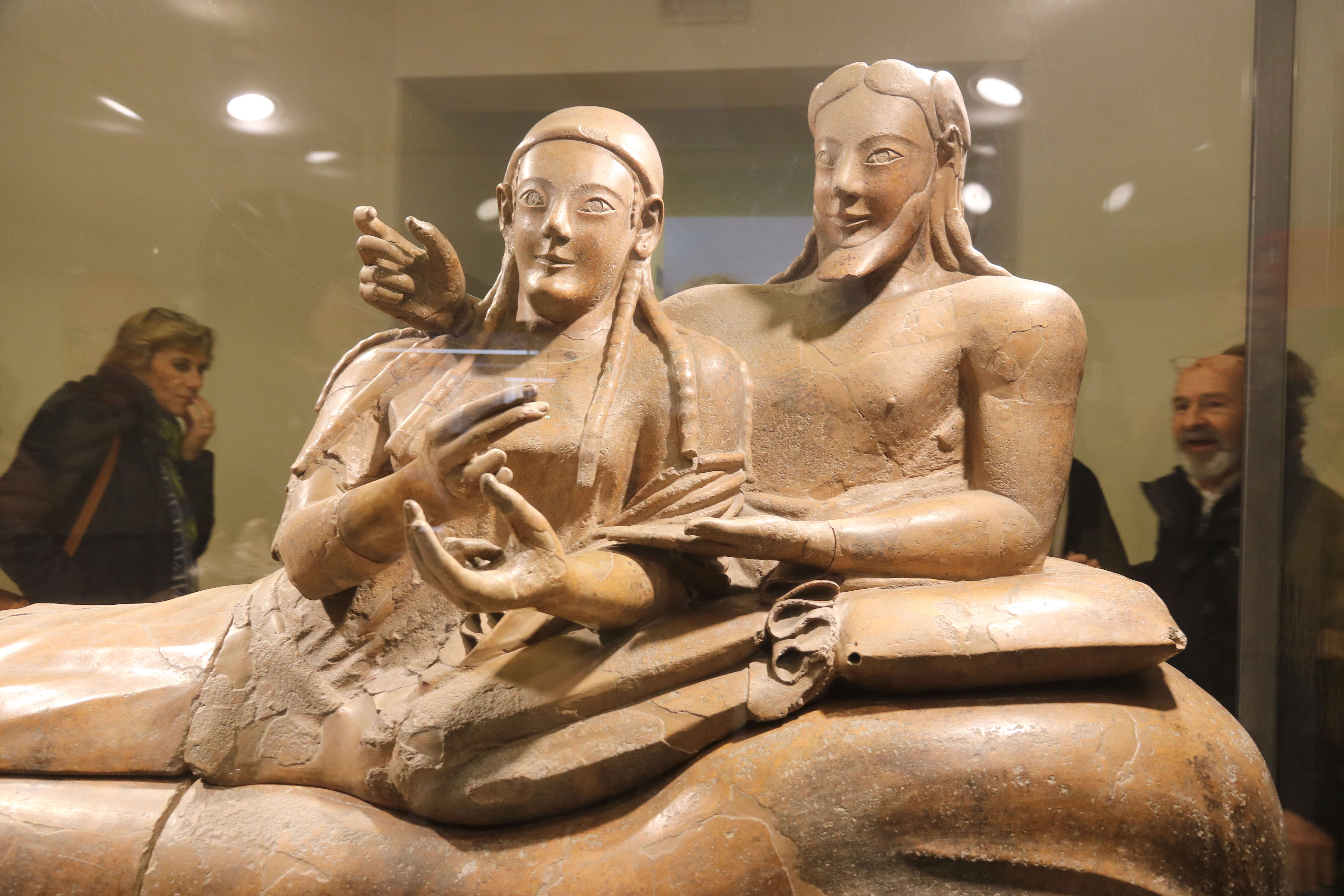 Villa Giulia